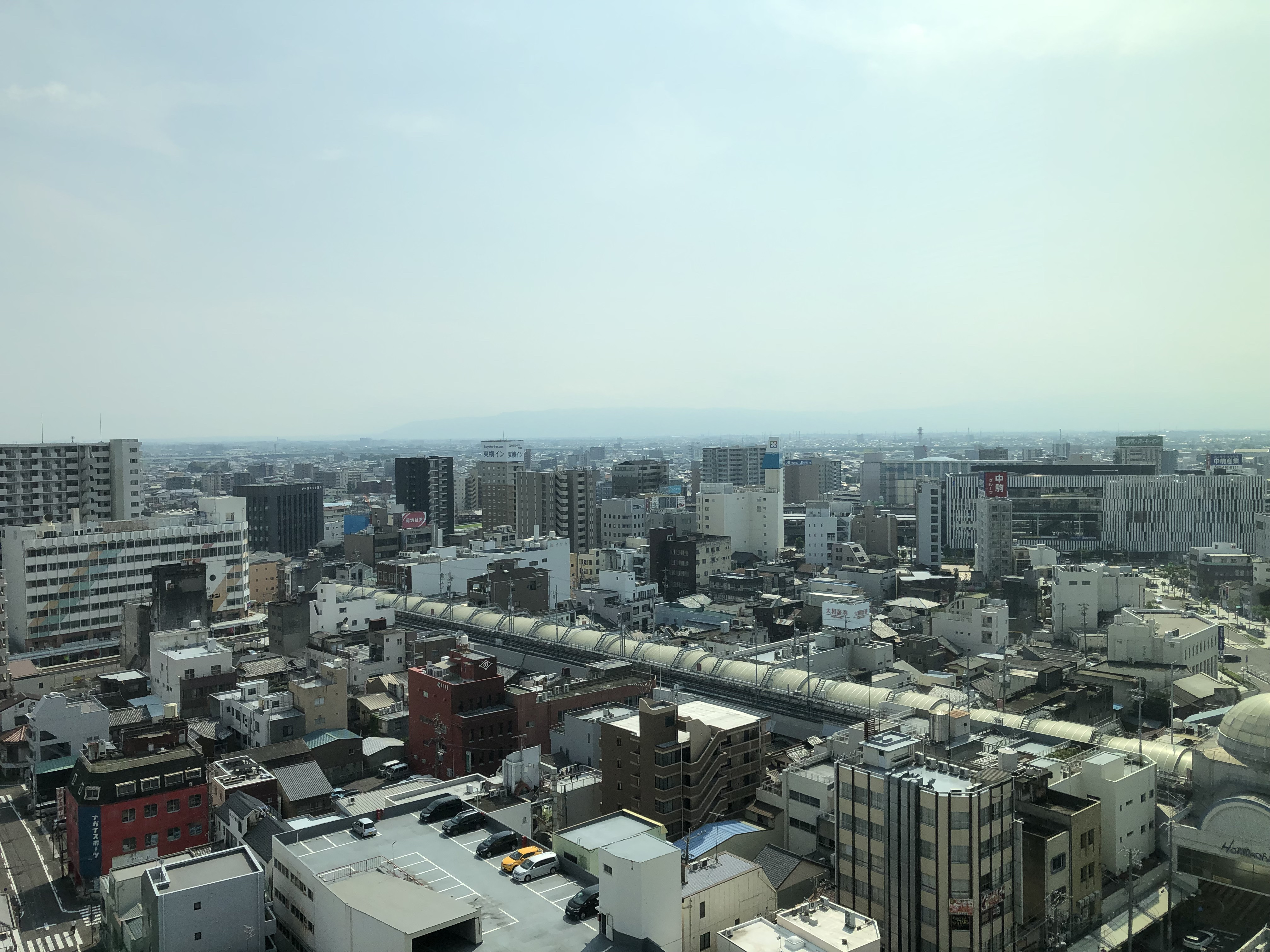 DownTown of IchinomiyaCity2